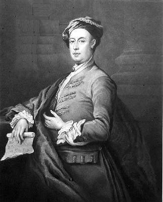 Portrait of George Frederick Handel